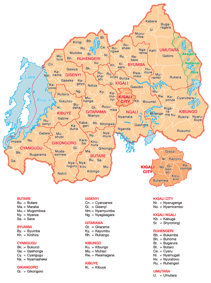 Map of Rwanda, its districts and major cities.